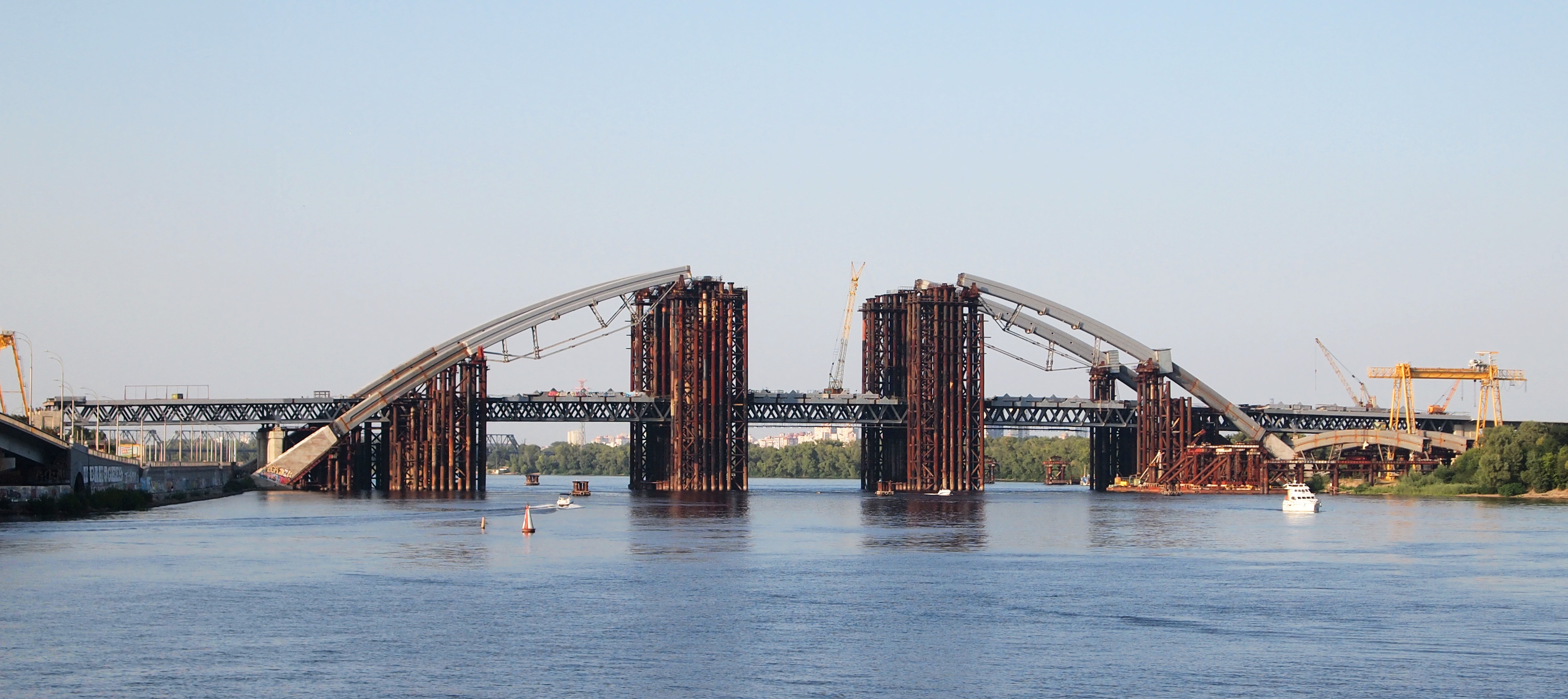 A bridge under construction in Kiev. This photograph was taken with an Olympus E-PL1